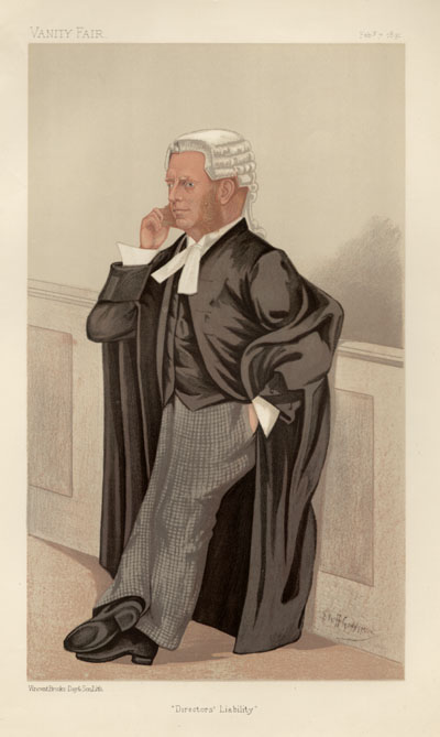 Statesmen No.576: Caricature of Mr Cornelius Marshall Warmington QC MP. Caption reads: "Directors' liability"